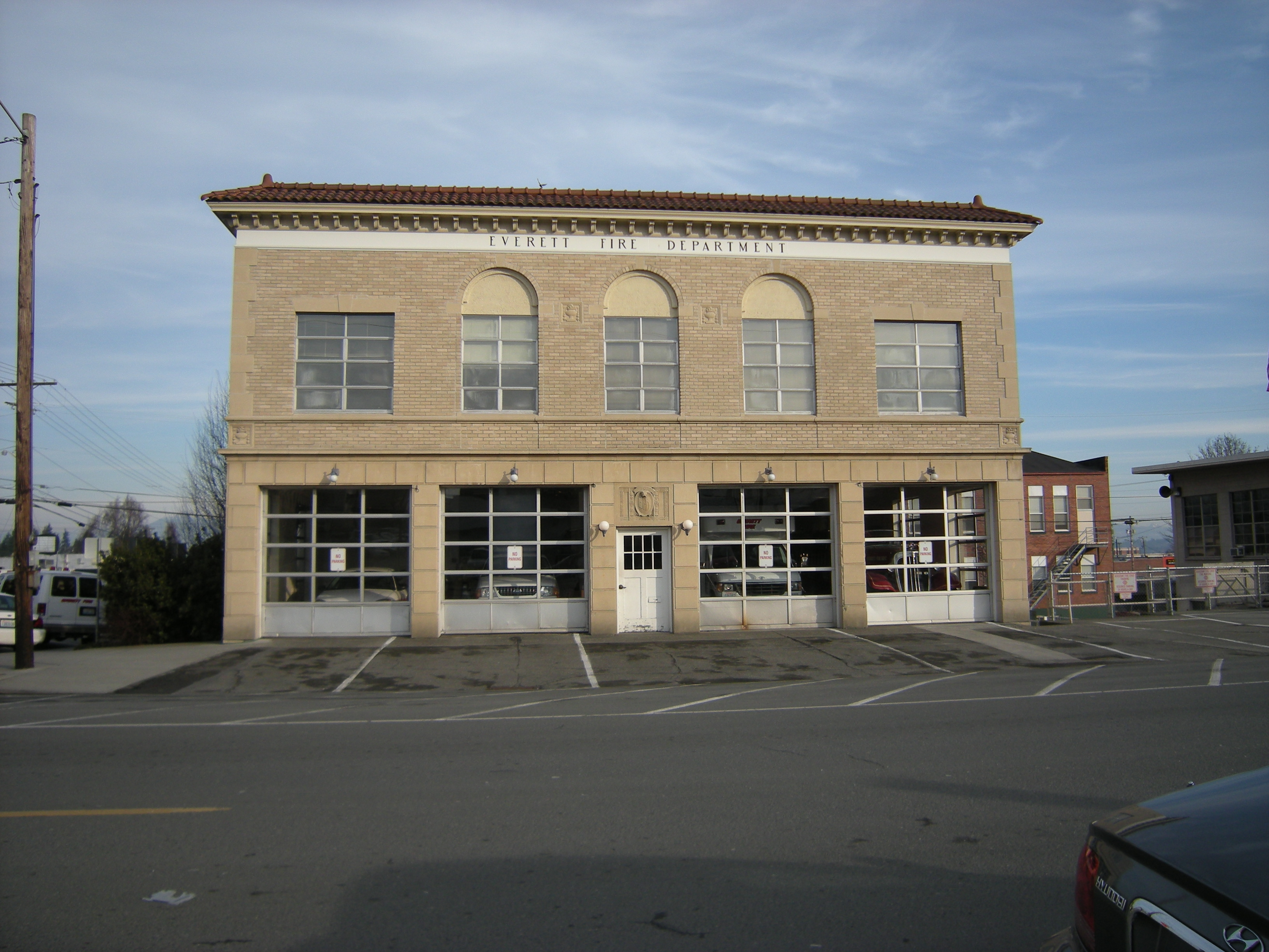 Fire Station No. 2, 2801 Oakes Avenue, Everett, Washington, USA. Listed on the National Register of Historic Places.